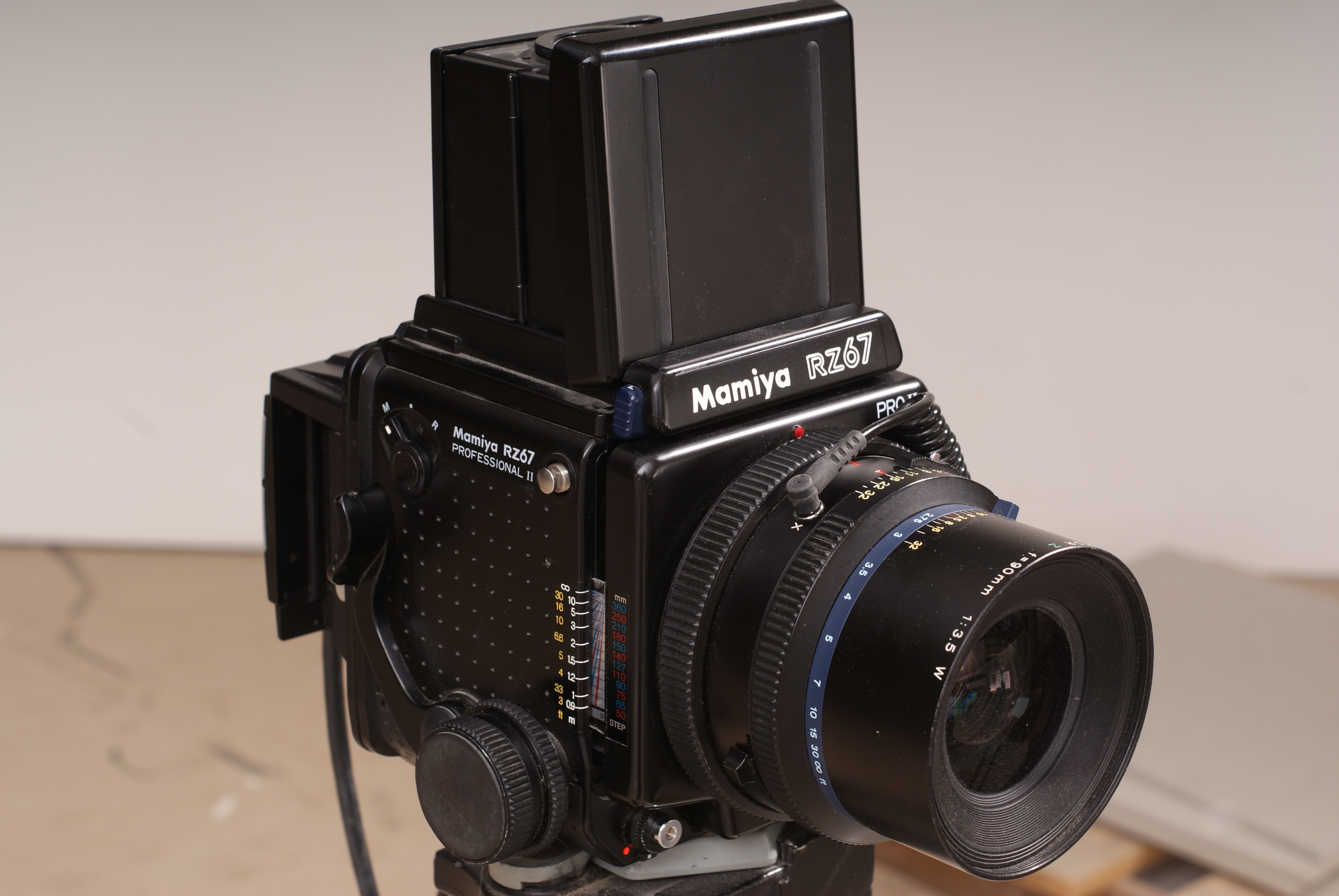 Oh how I wish I could use this again, All in all this was the most expensive piece of camera equipment I've ever used! (and then youve got all the profoto lights to accompany it!)